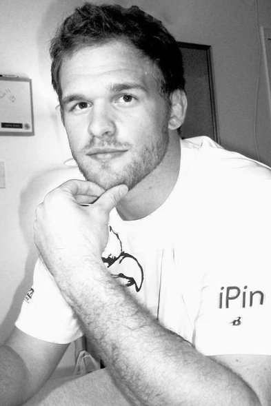 This is a photo of Columbia University wrestling coach, LGBT activist, and Founding Director of Athlete Ally Hudson Taylor.